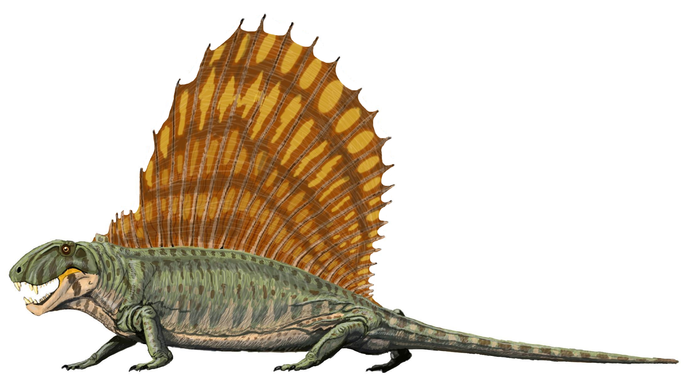 Dimetrodon_grandis- reconstruction autor - Bogdanov